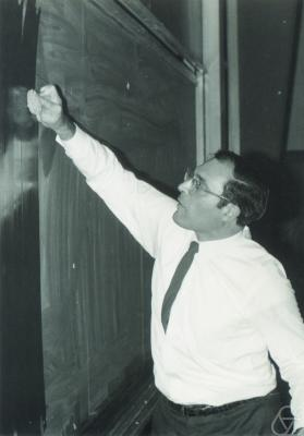 Mathematician Gian-Carlo Rota in Nizza.